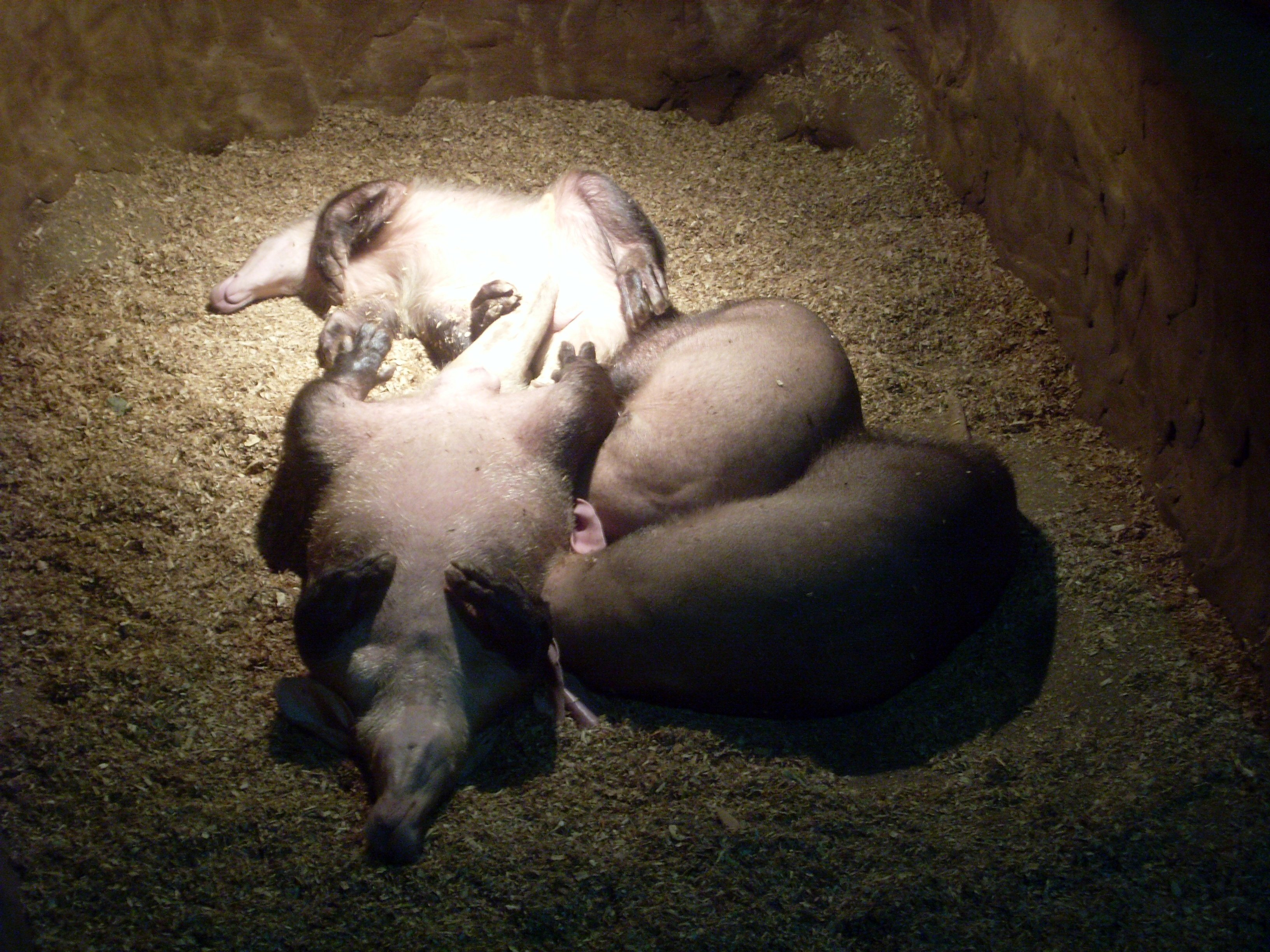 Crazy name, crazy animal. Every few seconds a leg would twitch, or a ear would flick but they never moved opther than that!